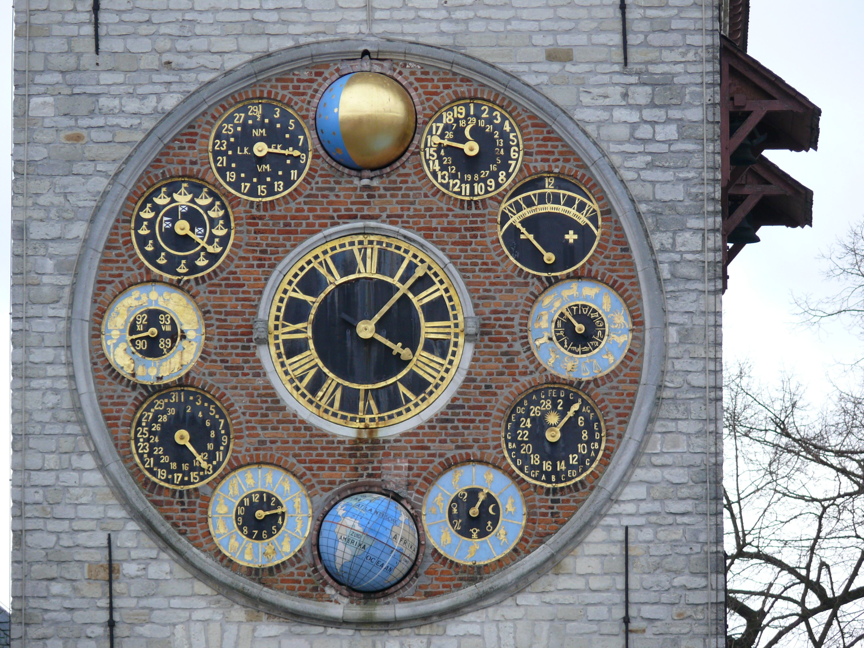 Zimmer tower at Lier, Belgium. The centre dial shows the time in hours and minutes. Around the centre, clockwise from top: phase of the moon metonic cycle and the epact equation of time zodiac solar cycle and the dominical letter the week the Earth's globe the months the Calendar dates the seasons the tides the age of the moon